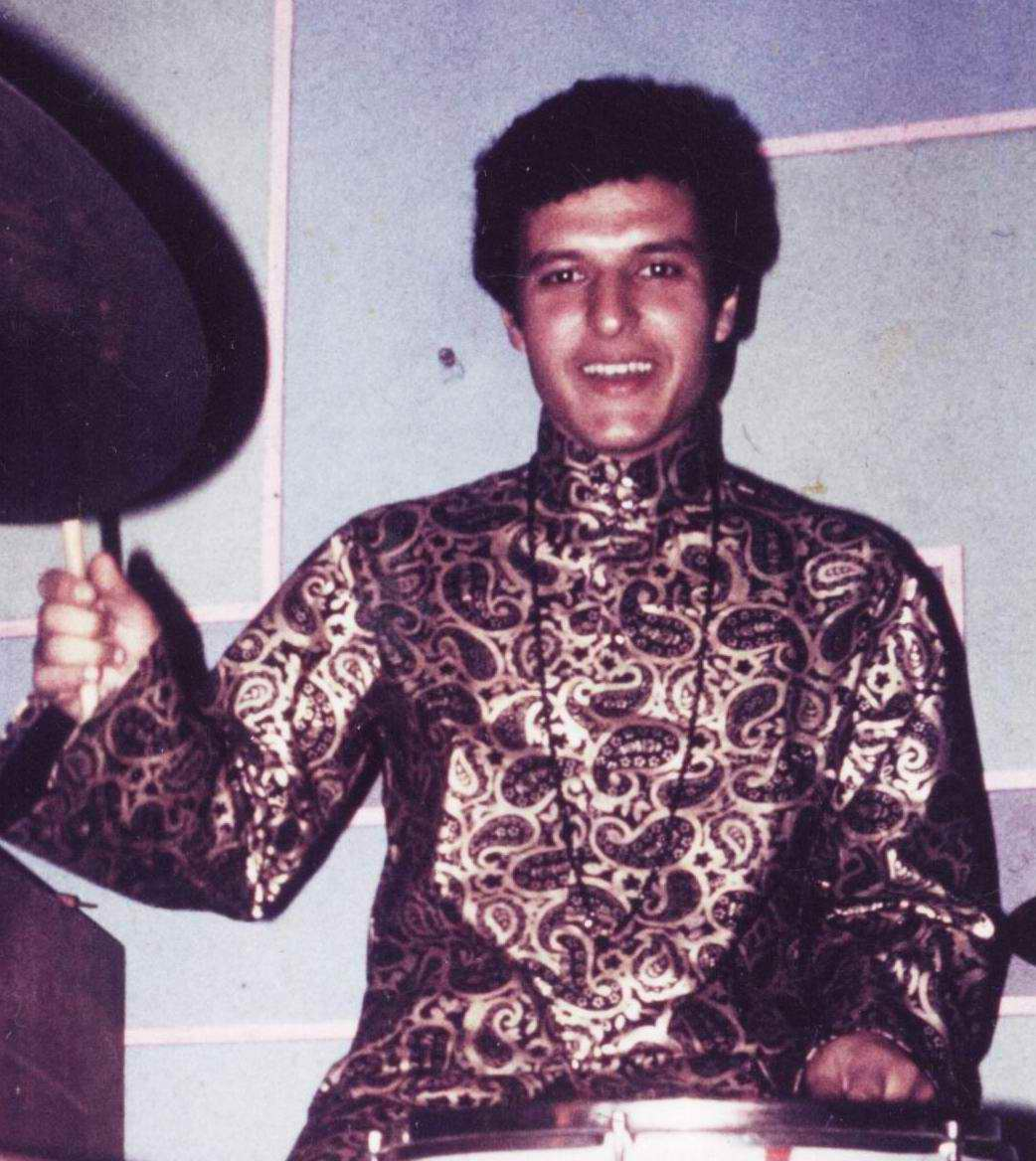 In Perla Bar in Mamaia with Olympic 1968